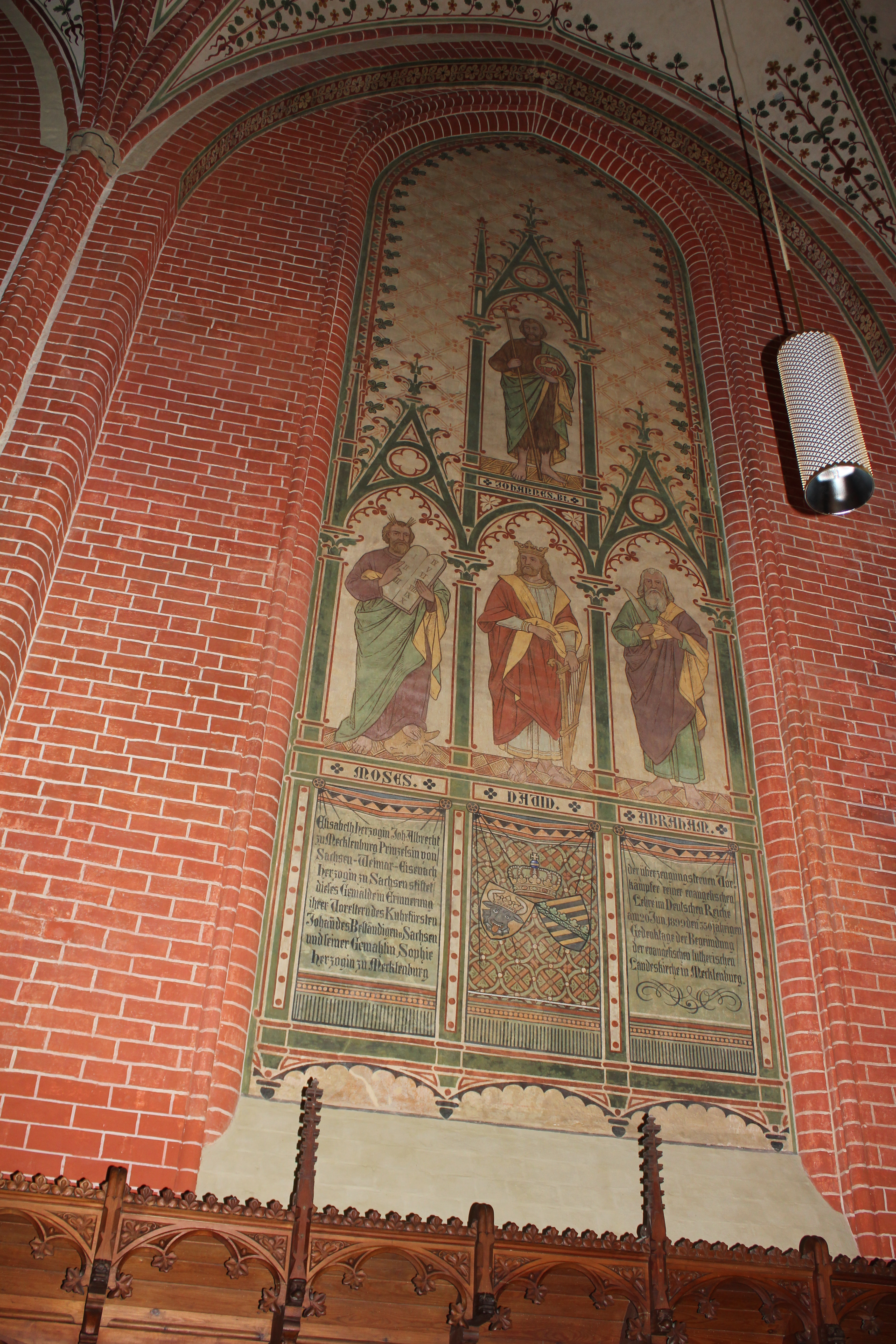 Fresco in the church Sternberg in Mecklenburg